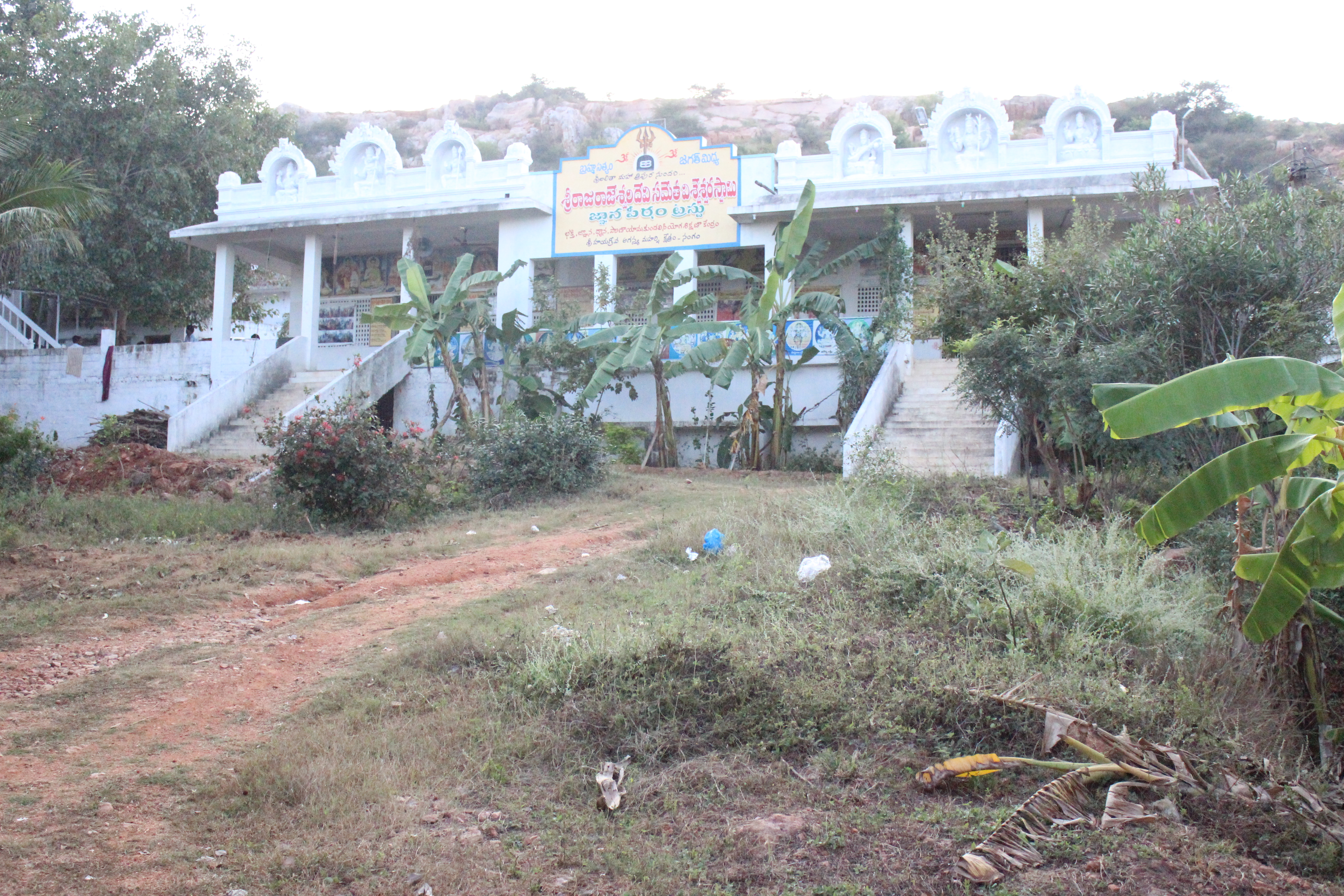 sangam temples